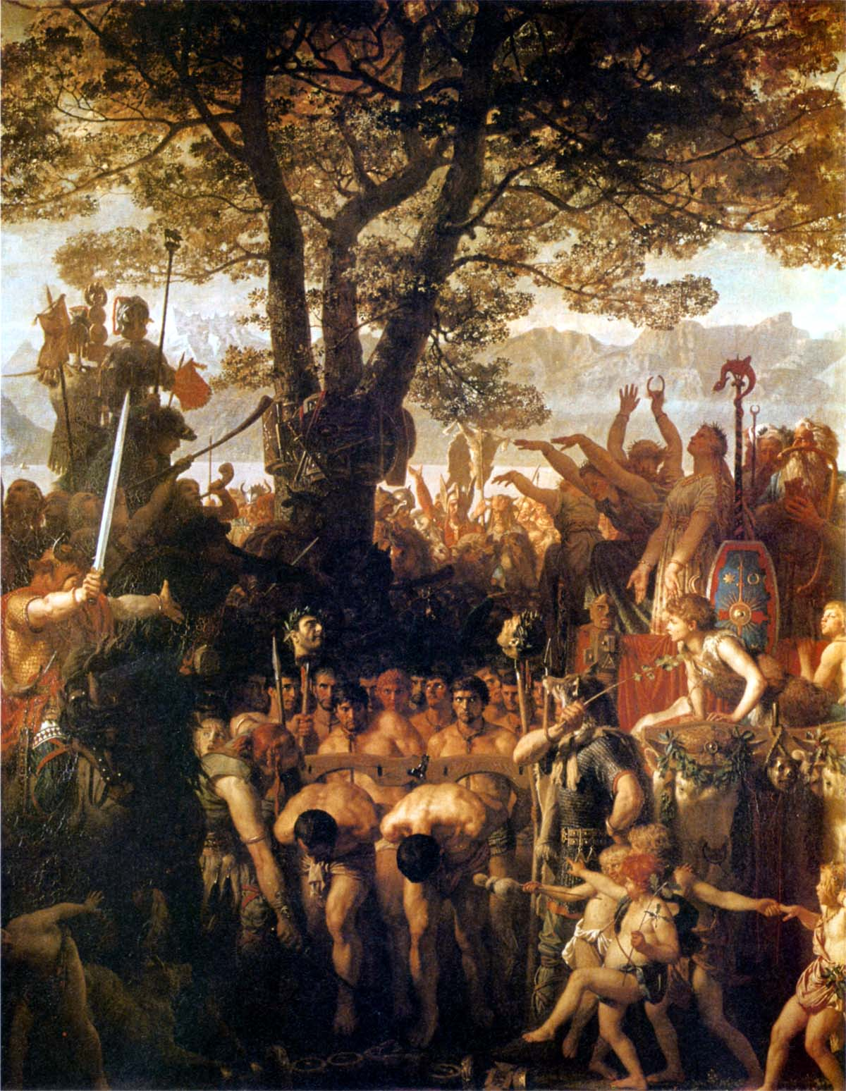 "Les Romains passant sous le joug". 19th century painting showing the triumph of the Helvetians over the Romans after the battle of Agen in 107 BC. On the left side holding a sword, Divico, the leader of the Helvetians